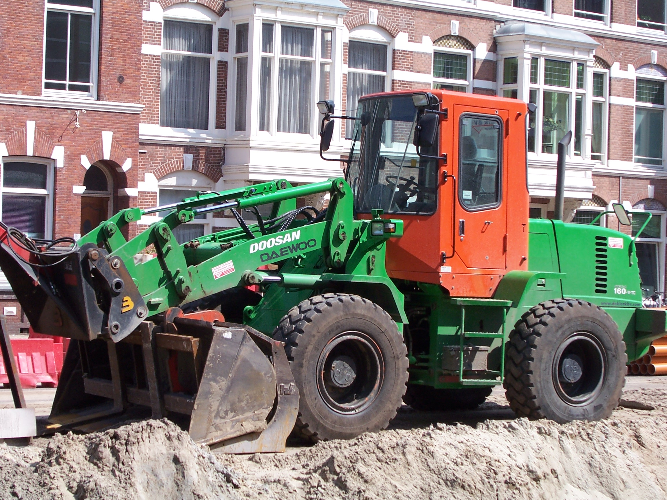 Doosan Daewoo loader